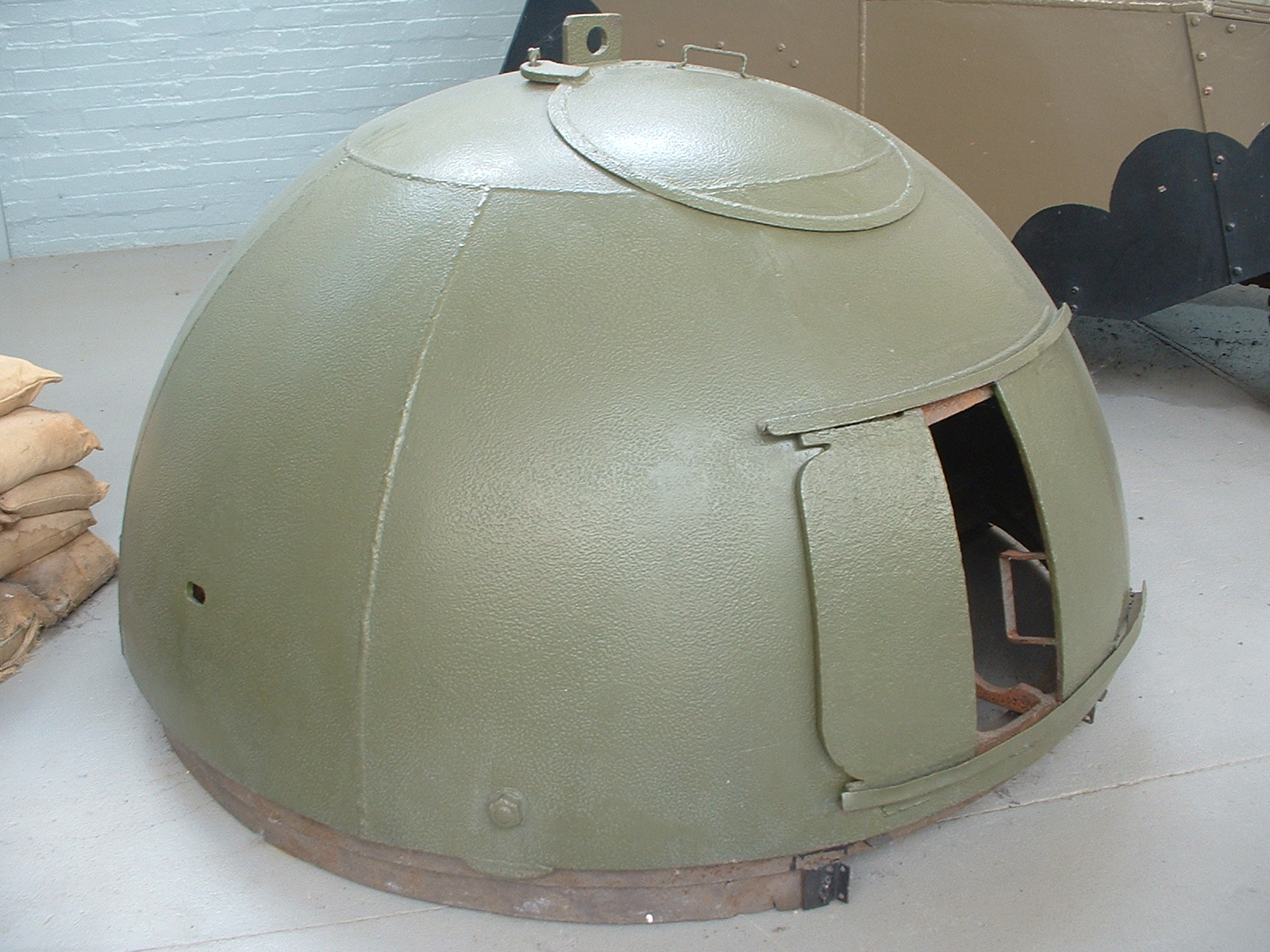 Photographed by me (Gaius Cornelius) 05-Jun-06.